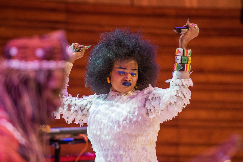 Oumou Sangaré WOMEX 17 Award Ceremony, by Yannis Psathas - 2